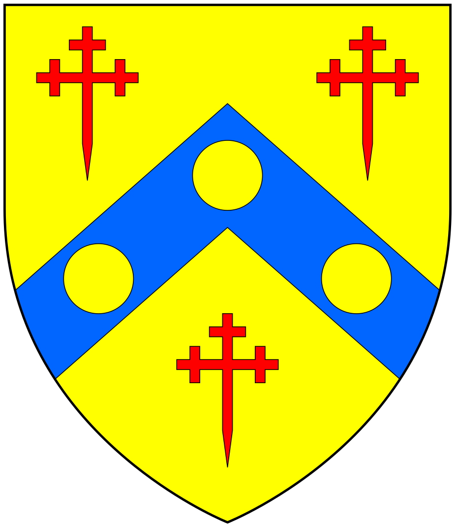 Arms of Crossing of Exeter, Devon: Or, on a chevron azure between three crosses crosslet fitchée gules as many bezants. Hugh Crossing was Mayor of Exeter in the 17th century and his eldest son Francis Crossing (c.1598-1638) was Member of Parliament for Mitchell in 1626 and for Camelford in 1628.[1]